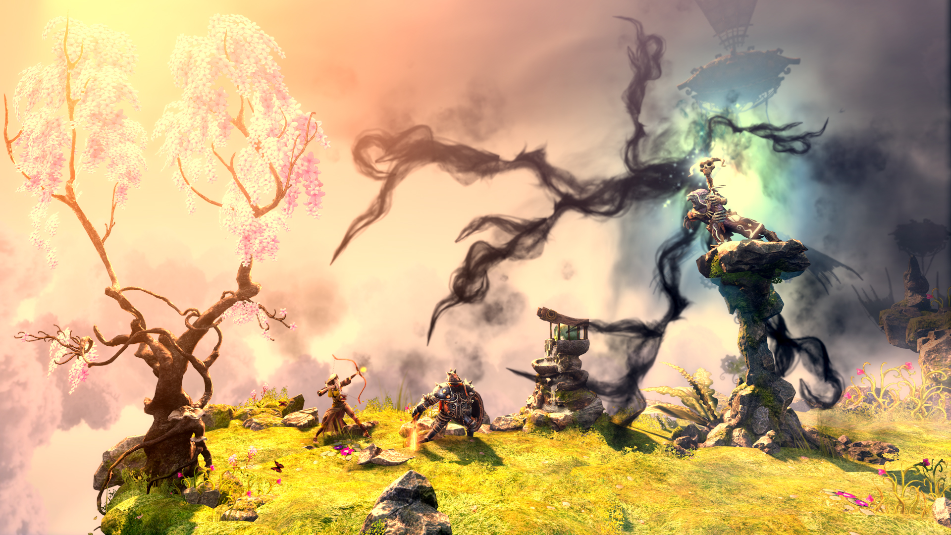 Trine 2 screenshot. Released in 2011, the game was developed by Frozenbyte. Zoya and Pontius battle a shaman in this scene from the Cloudy Isles chapter, part of the Goblin Menace DLC pack released in 2012.